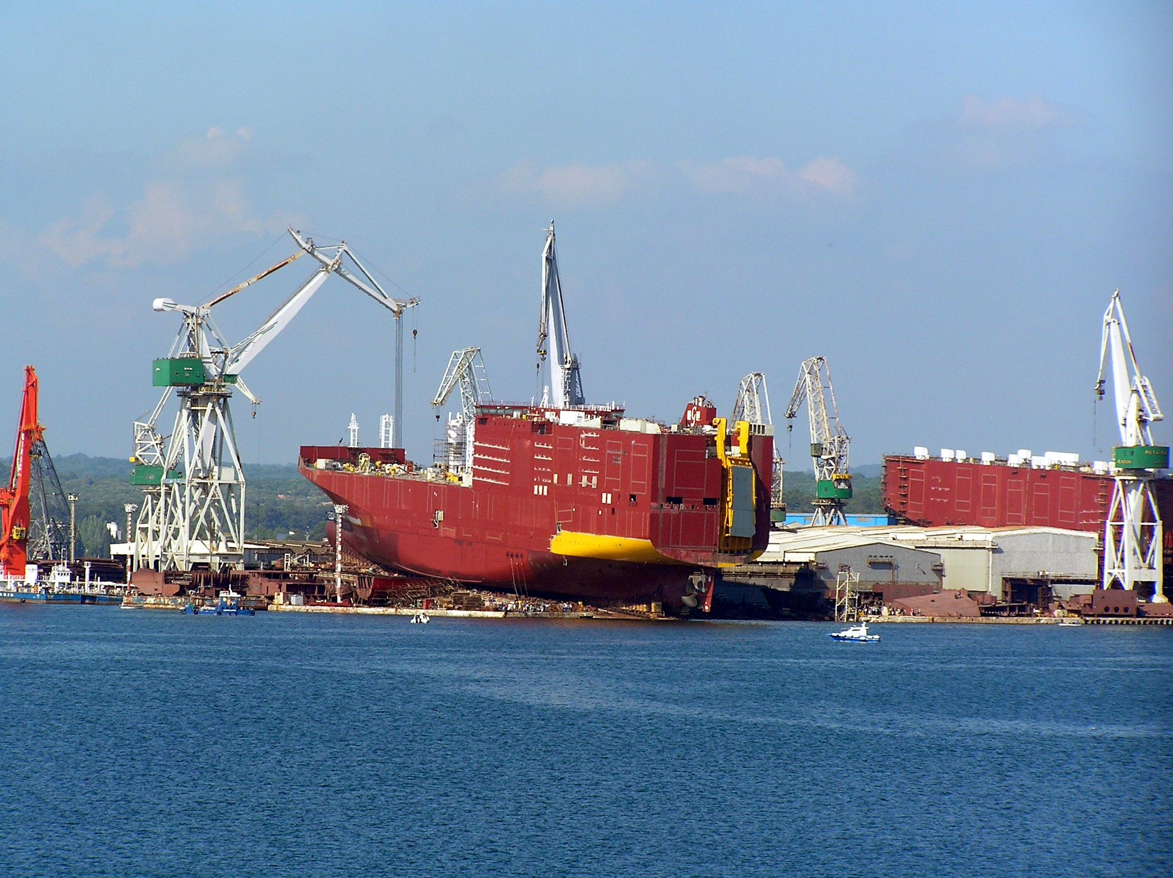 Ship launch in Uljanik shipyard, Pula